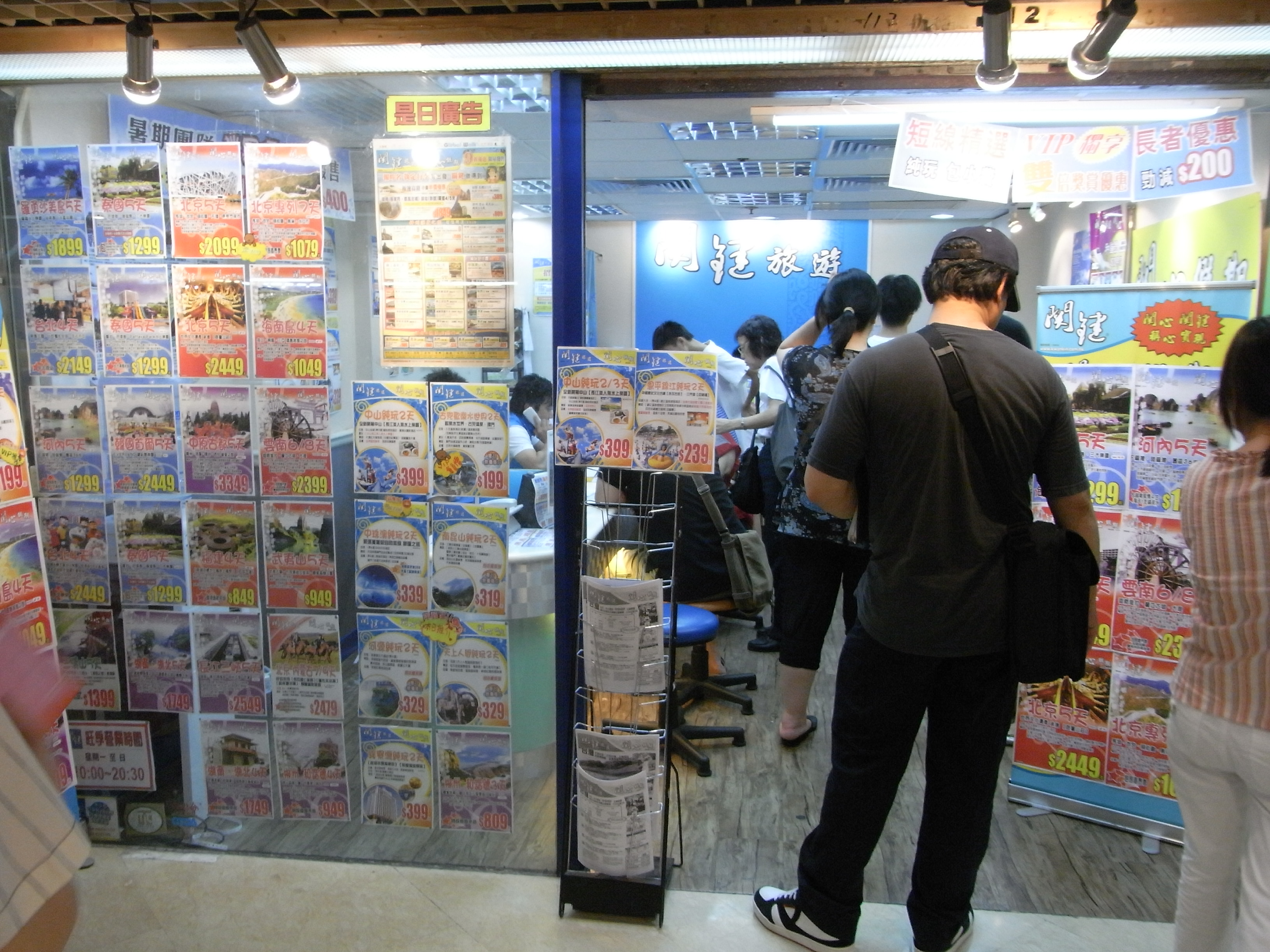 觀塘廣場